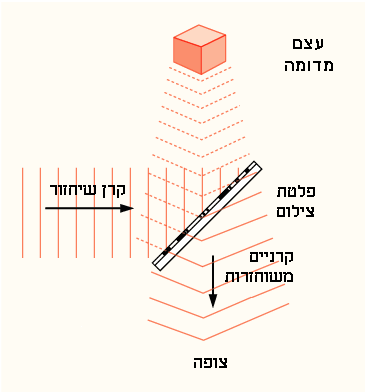 תיקון של הולוגרפיה2 hebrew version of Image:Holography-reconstruct.png.